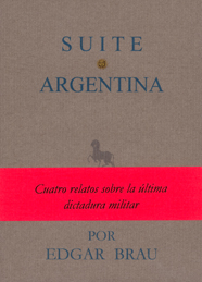 Suite argentina, first Spanish edition. METZENGERSTEIN Ediciones. Buenos Aires.